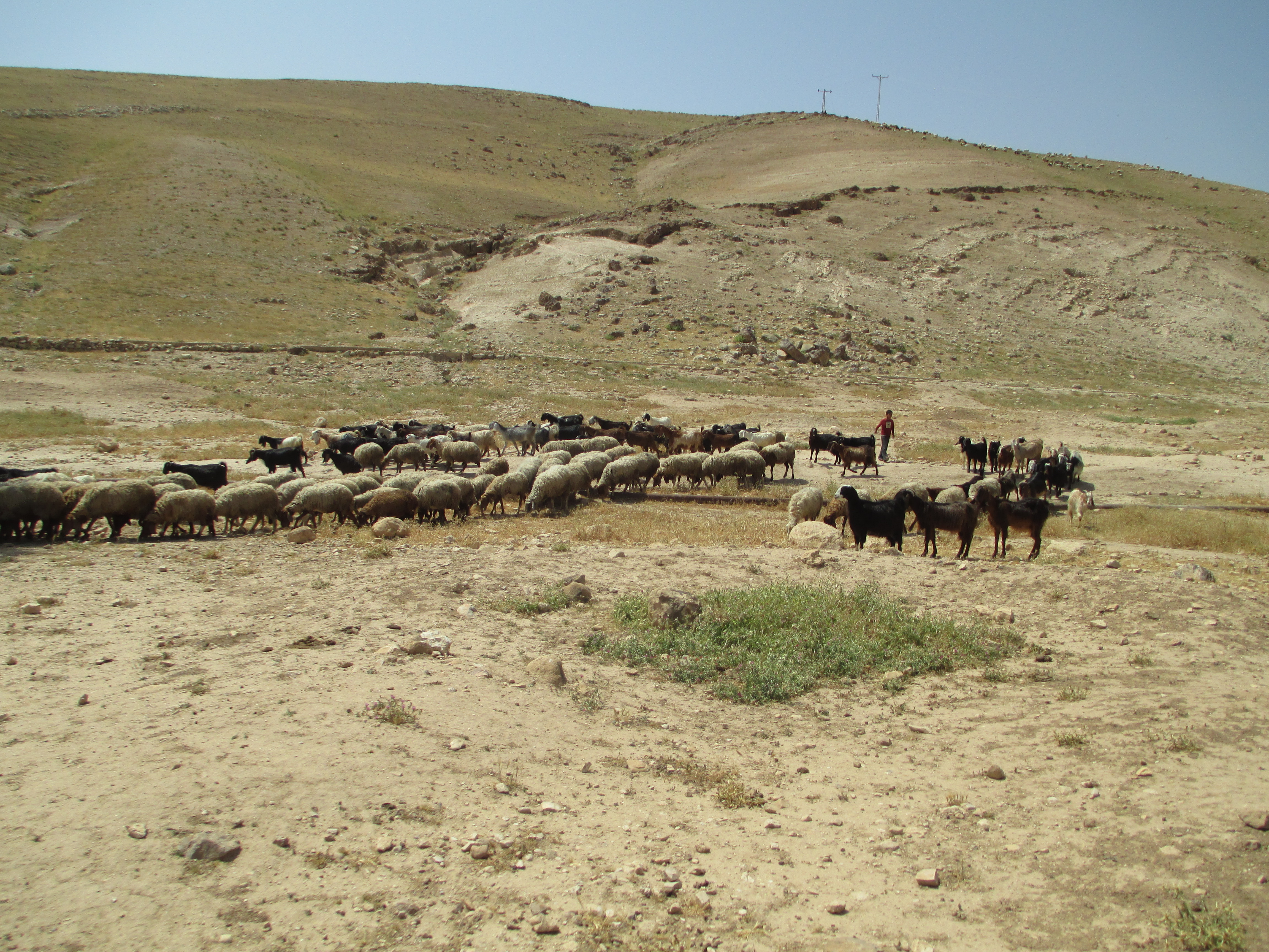 Sheep in Peza'el Valley